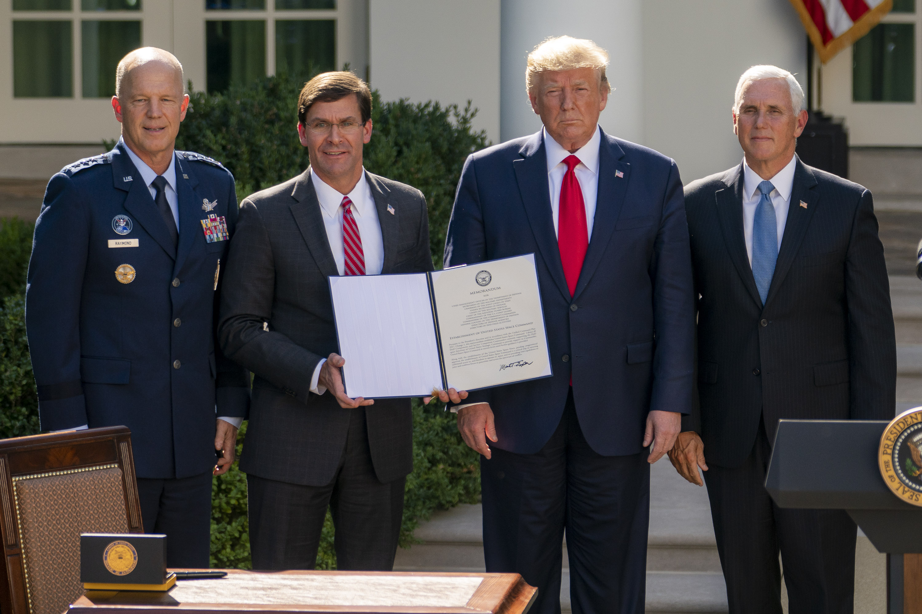 President Donald J. Trump and Vice President Mike Pence, joined by General John ”Jay” Raymond Commander of USSPACECOM, stand with Secretary of Defense Mark Esper as he displays the signed document for the Establishment of the U.S. Space Command (USSPACECOM) Thursday, Aug. 29, 2019, in the Rose Garden of the White House. (Official White House Photo by Tia Dufour)